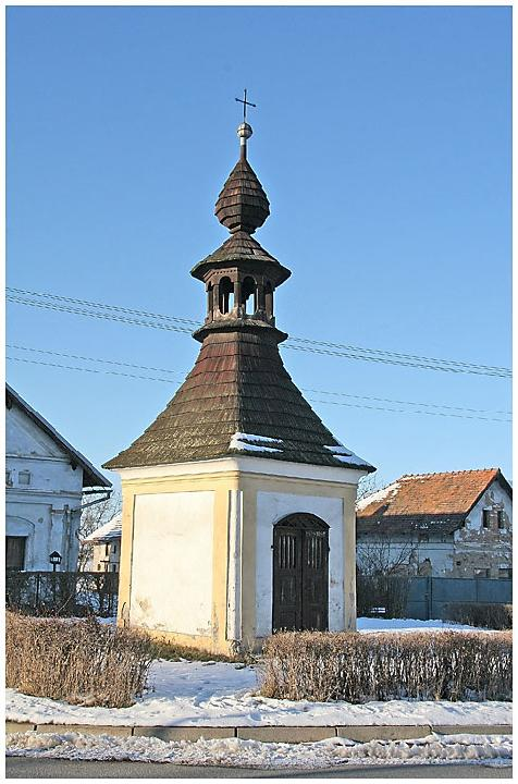 Saint Florian chapel in village of Dolany, Pardubice District, Czech Republic. autor: Prazak date: 1. 2006